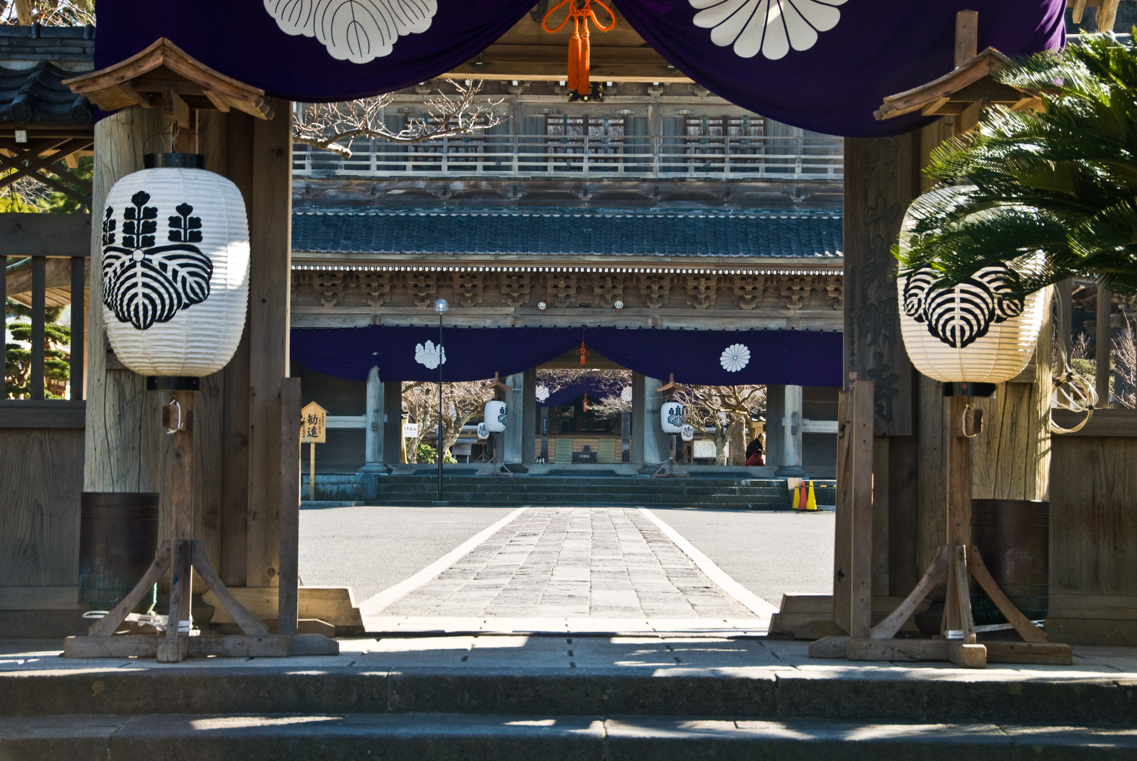 The two gates at Kōmyō-ji